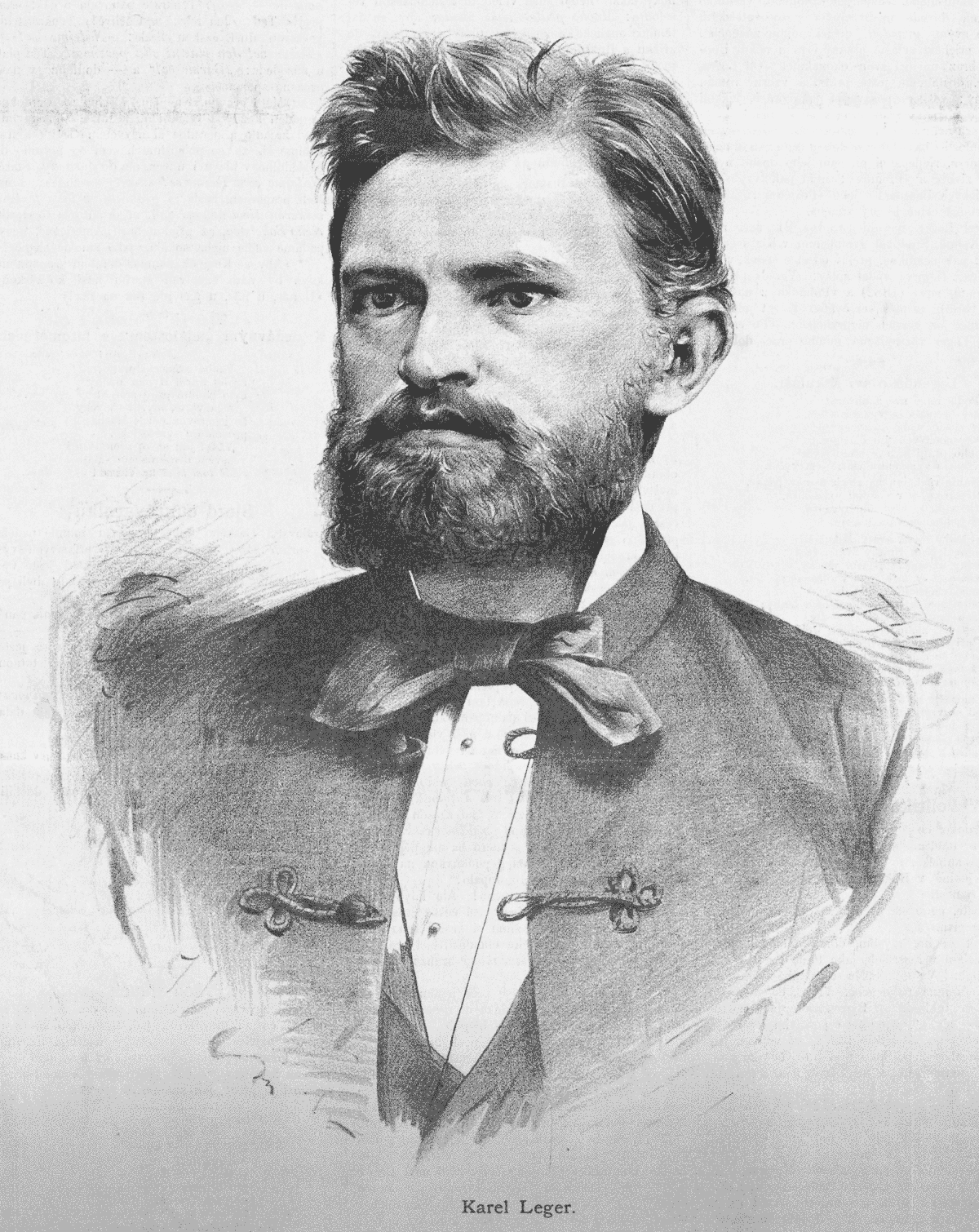 Portrait of Karel Leger (1859 - 1934), Czech poet.